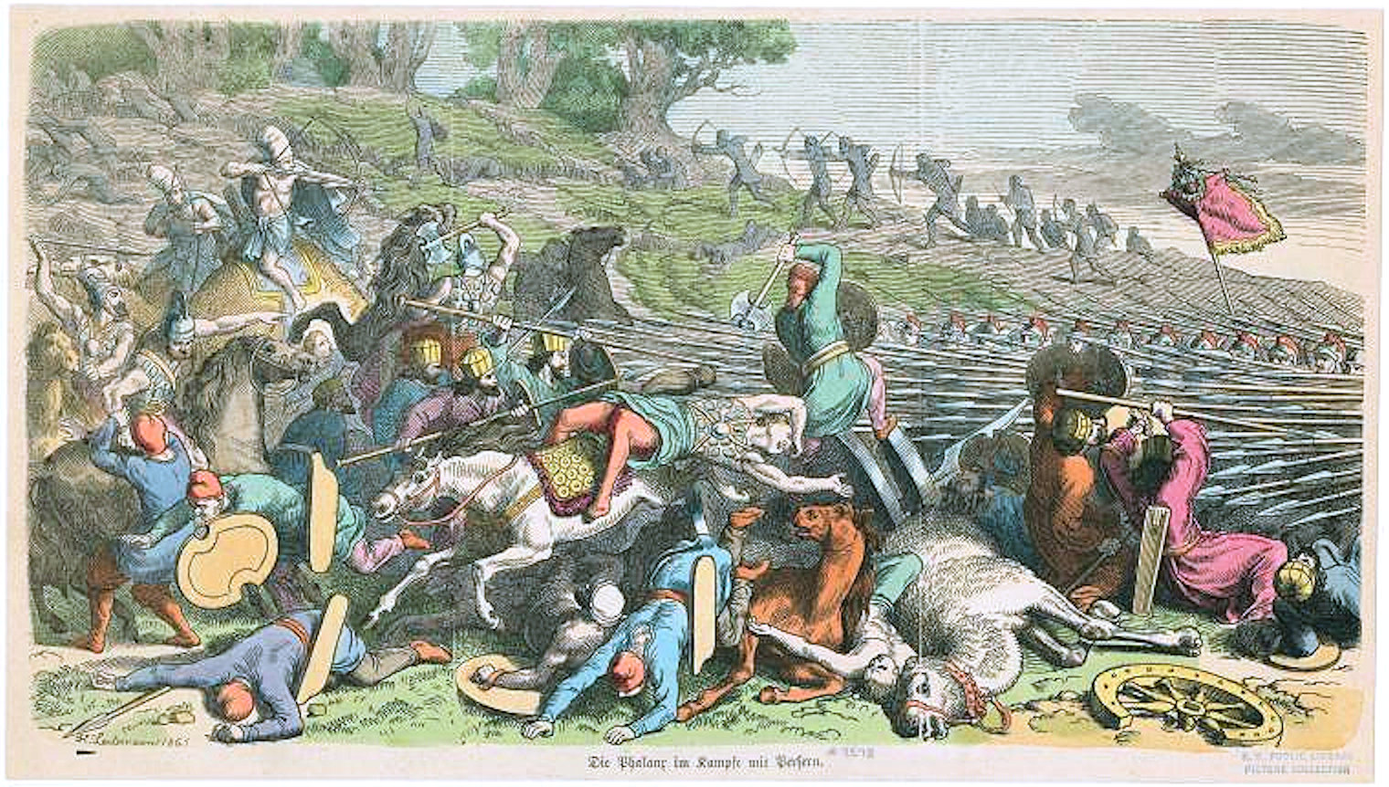 Die Phalanx im Kampfe mit Persern